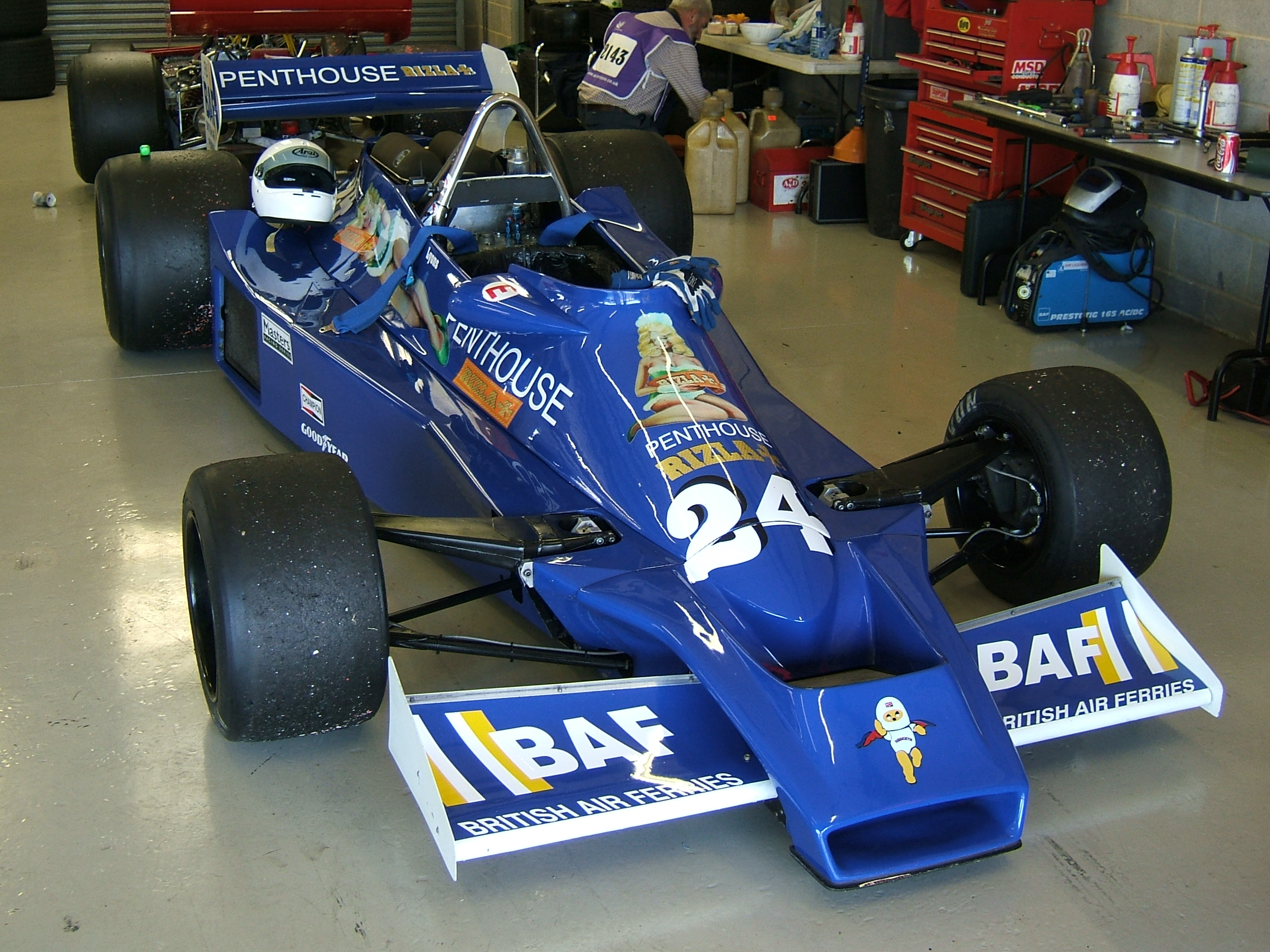 The Penthouse Rizla Racing Hesketh 308E-Cosworth of 1977, waiting in the pit garages at Silverstone during the Silverstone Classic race meeting, July 2007.